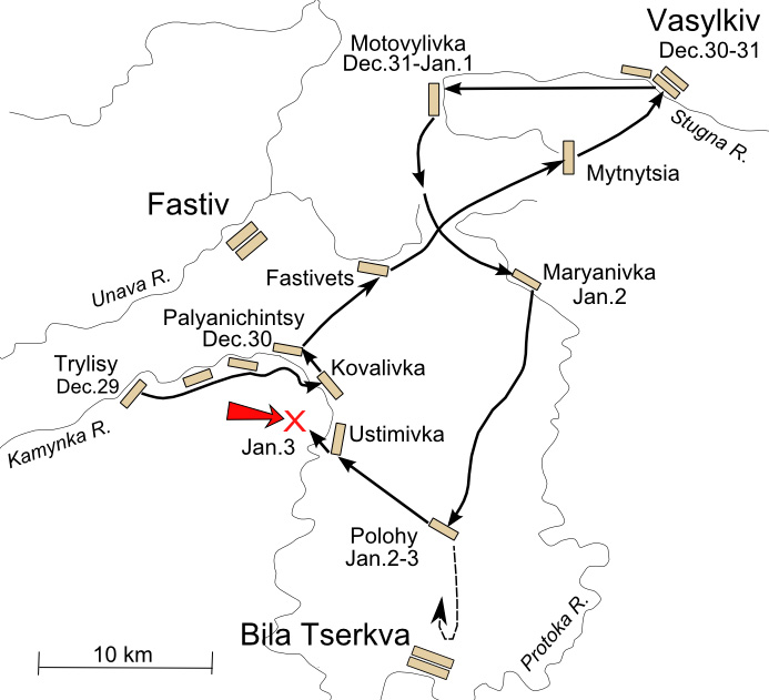 Map of Chernigov Regiment revolt Dec.29, 1825 - Jan 03, 1826 (old style). Legend transliterated from modern Ukrainian spelling.